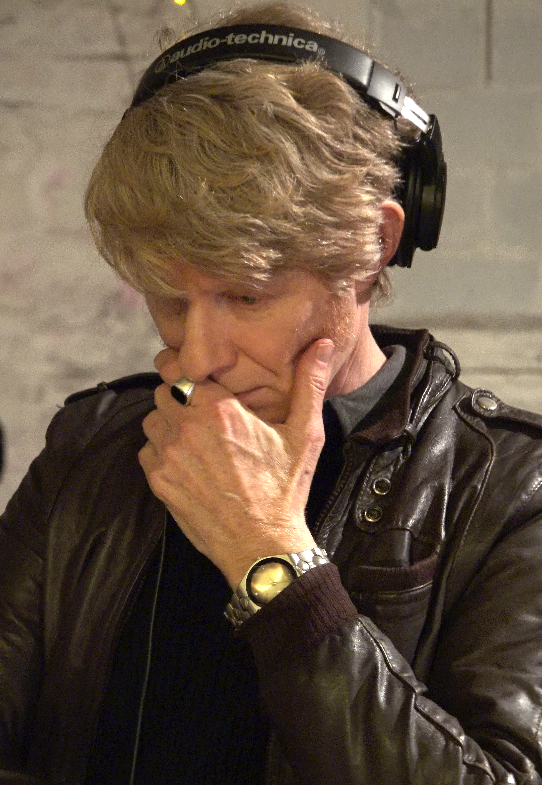 JG Thirlwell recording at BC Studios in 2016